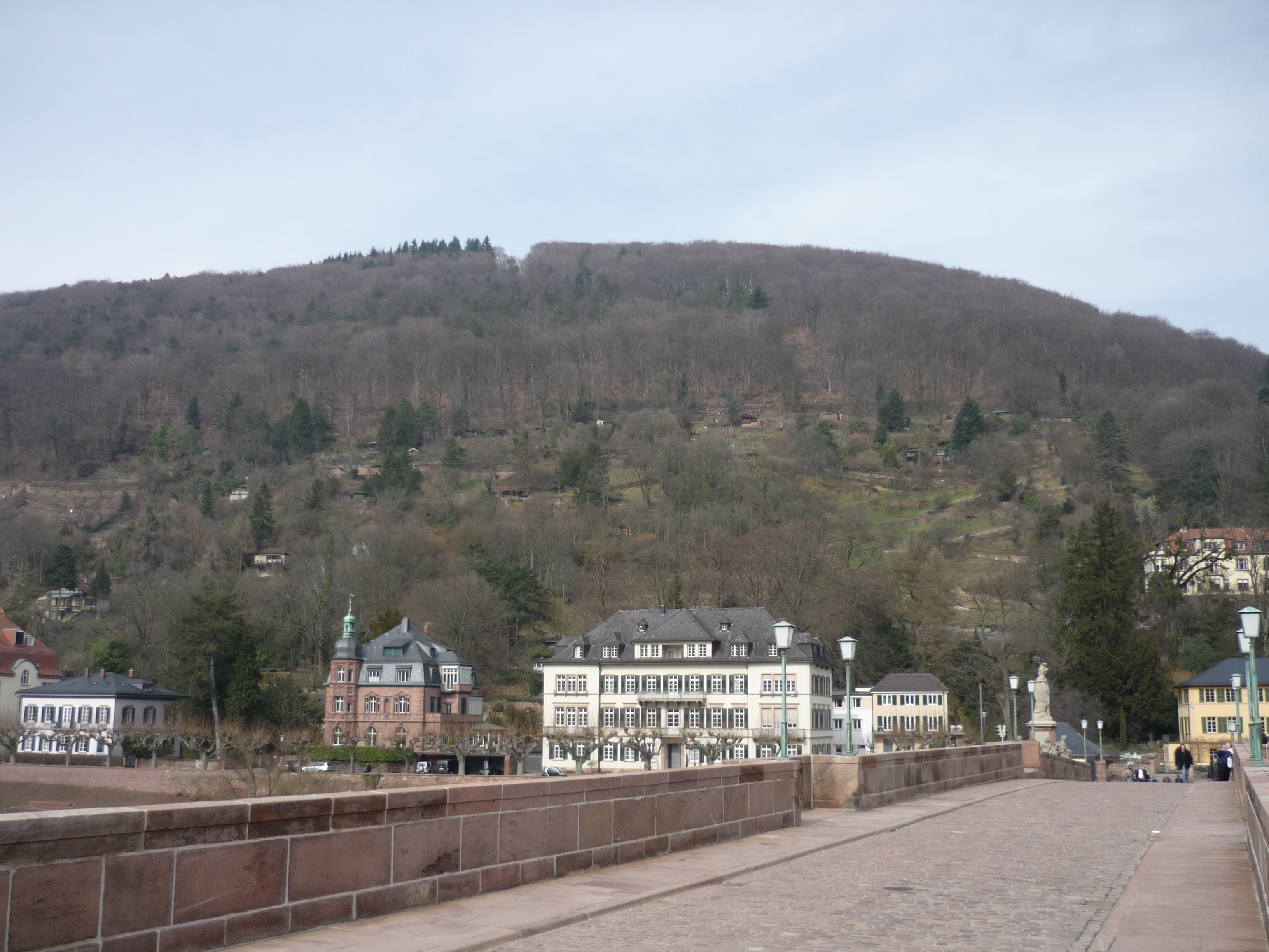 Picture of the Philosophenweg of Heidelberg.